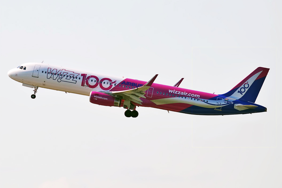 Wizz Air (100 Livery), HA-LTD, Airbus A321-231